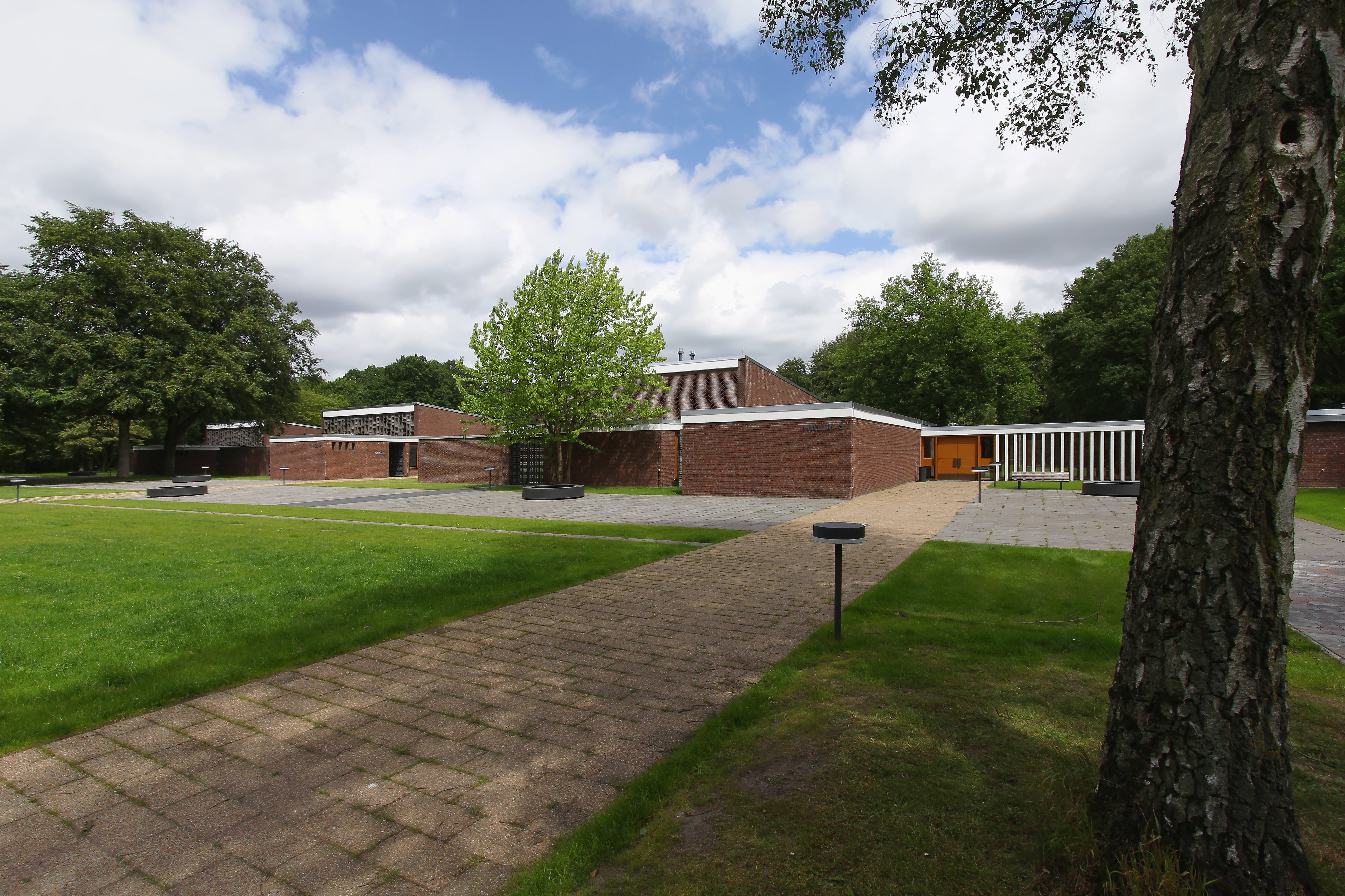 Hamburg, main cemetery Öjendorf, main building